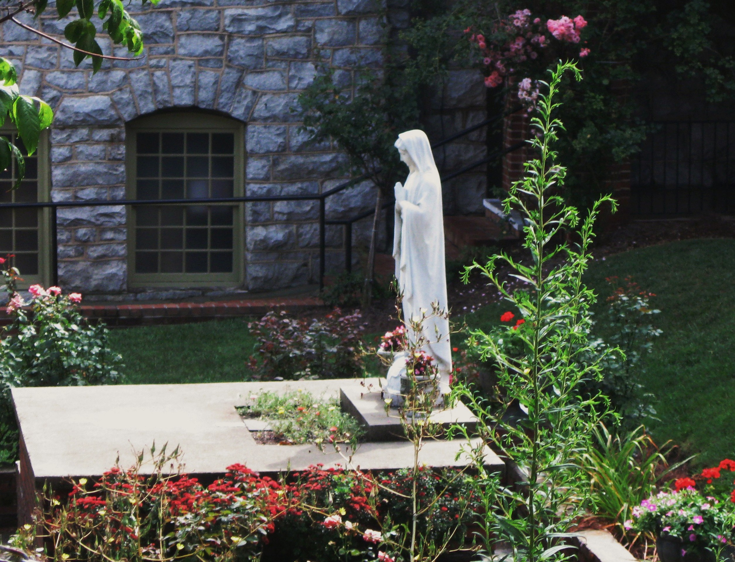 Mary garden at the Basilica of St. Lawrence, Asheville. Picture taken on August 2nd, 2010 by User:Willthacheerleader18